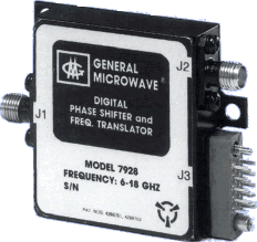 A General Microwave microwave (6 to 18 GHz) Phase Shifter and Frequency Translator. This microwave phase shifter is miniaturized, hermetically sealed, programmable and uses PIN diodes.